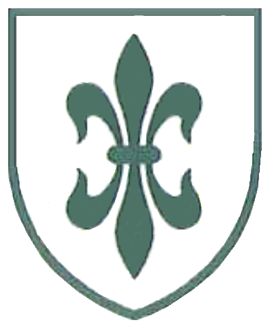 Coat of arms of Hohenruppersdorf, Lower Austria